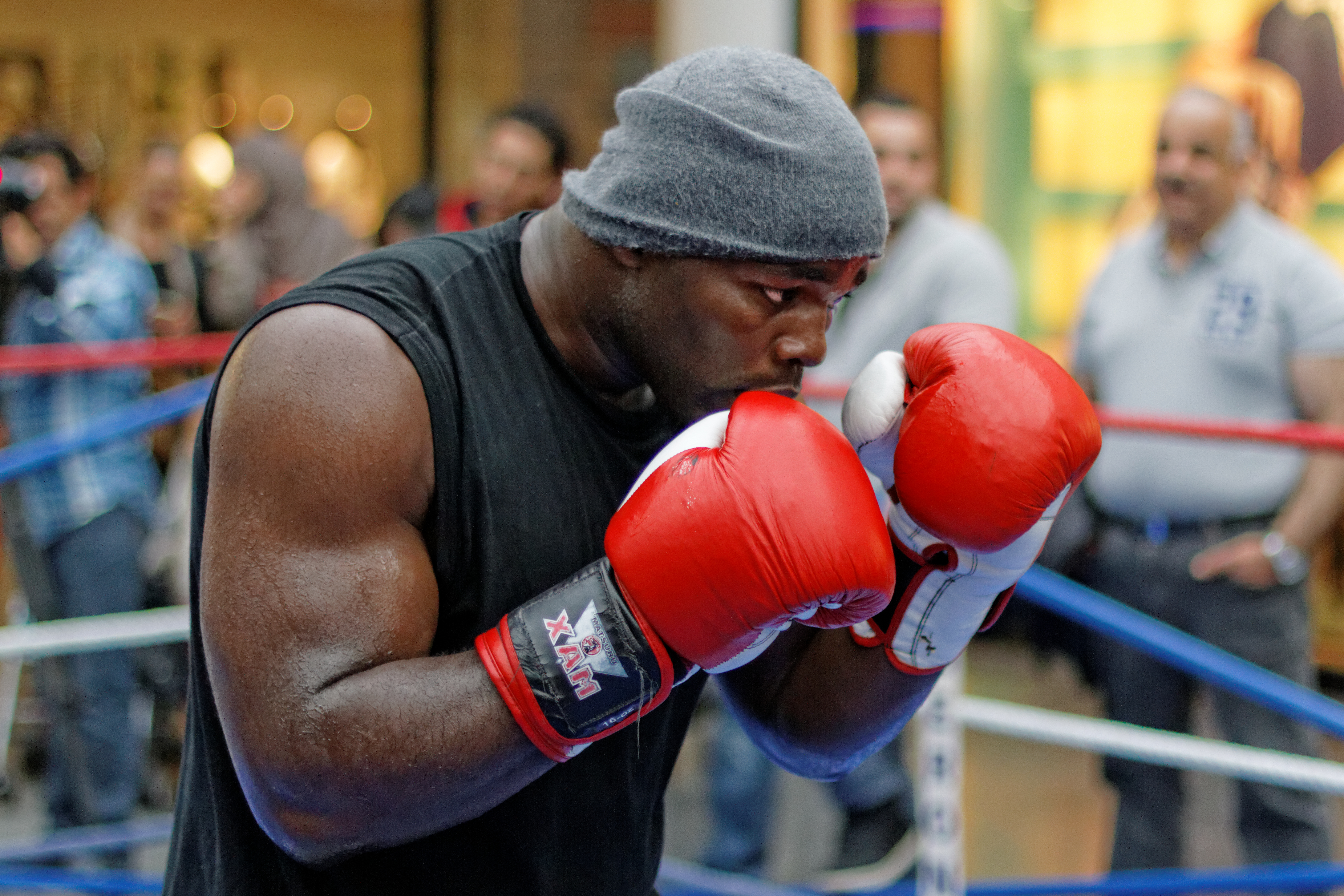 Boxer Carlos Takam during a public training session (Le Milléaire, Aubervilliers, France), before his fight against Tony Thompson.